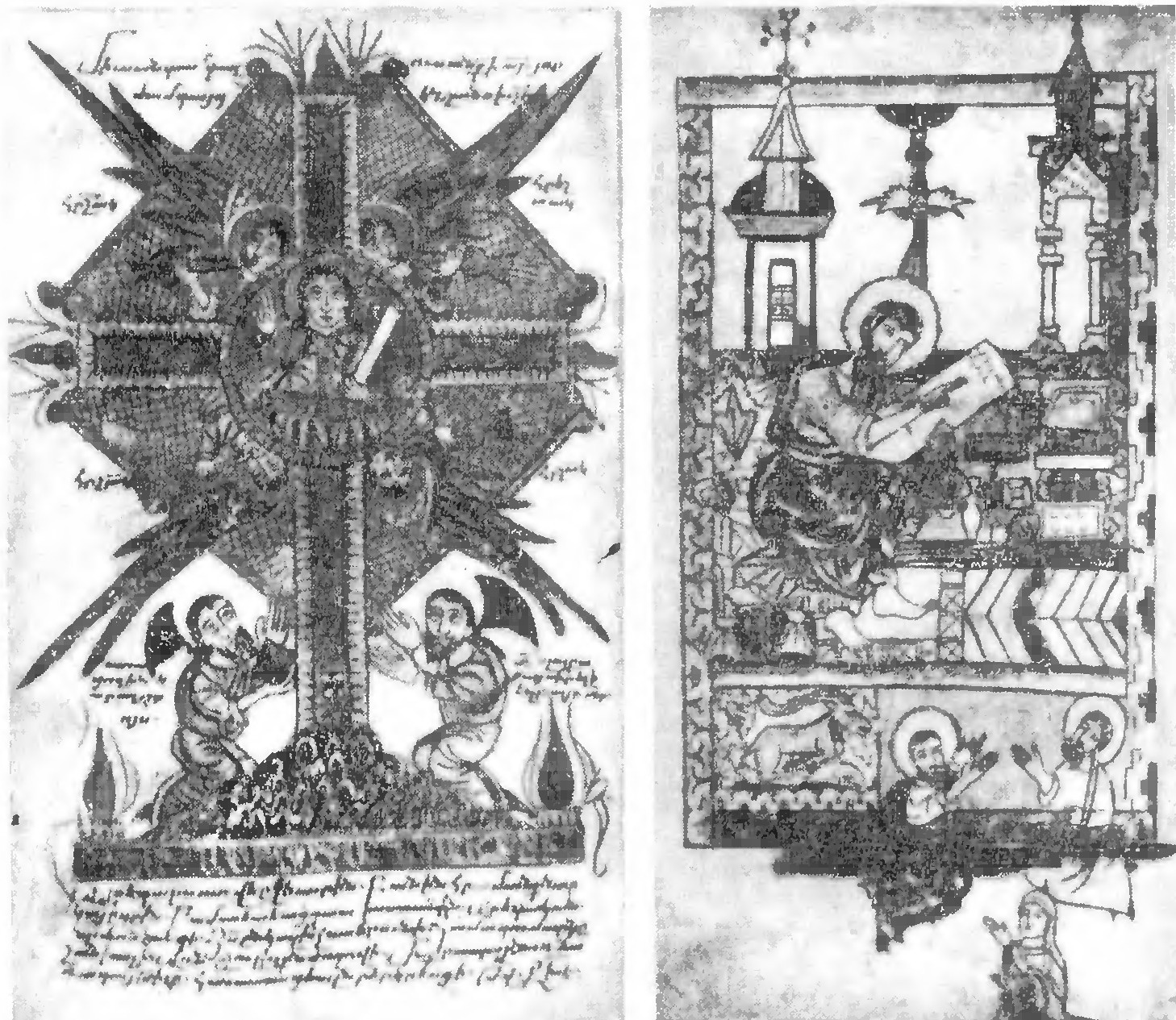 Soviet Armenian Encyclopedia volume 1